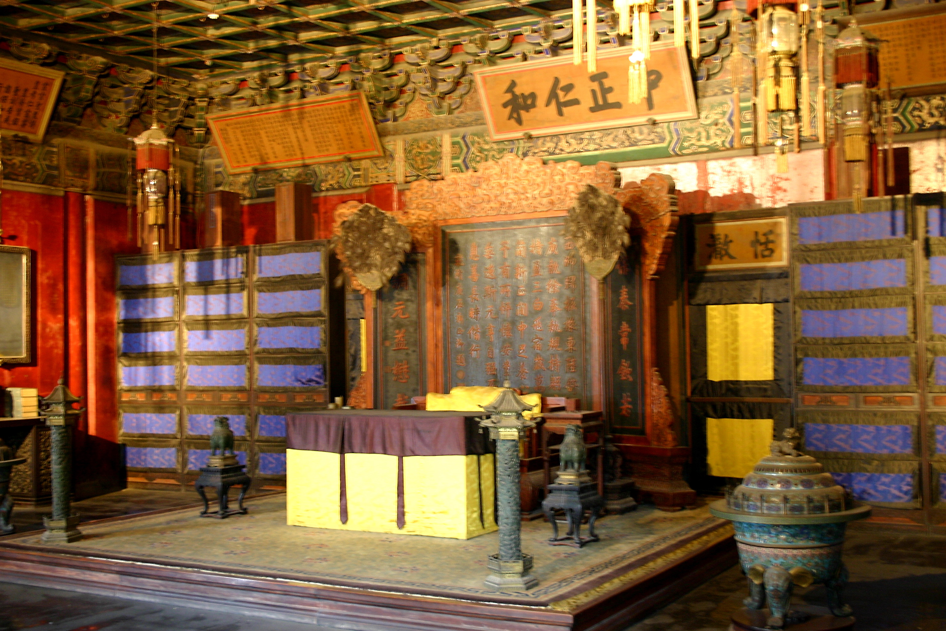 A room inside the Forbidden City in Beijing